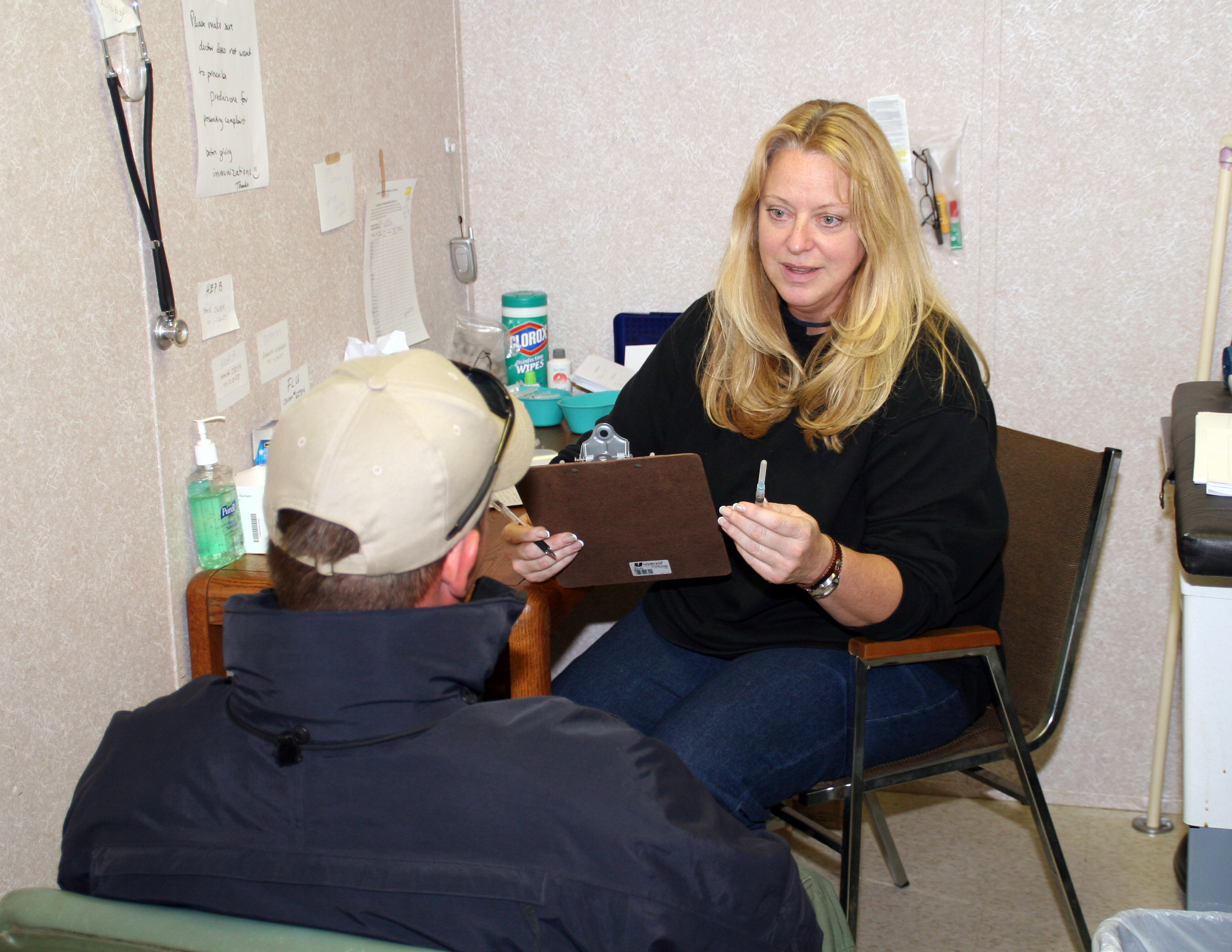 Chalmette, LA, December 16, 2005 - A patient receiving care instructions at the Primary Care Clinic in St. Bernard Parish. Free care is provided to parish residents by staff from FEMA Disaster Medical Assistance Team (DMAT) and the U.S. Public Health Agency. Robert Kaufmann/FEMA